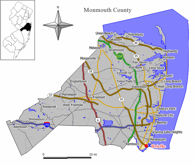 Source: Jim Irwin